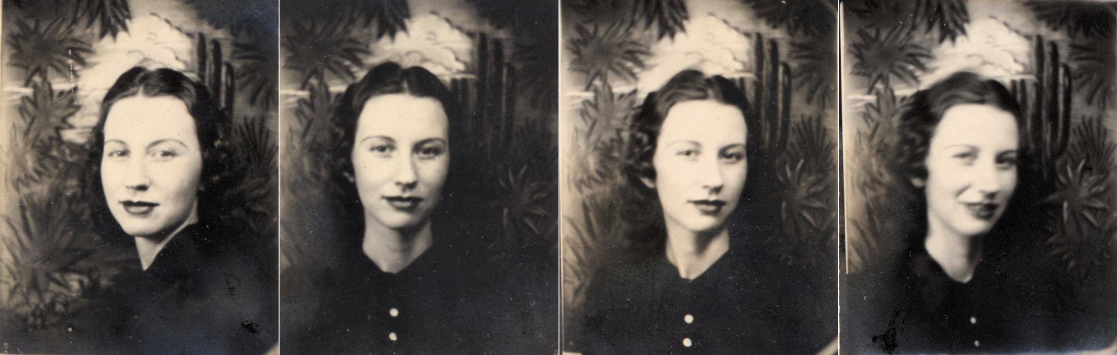 Photobooth photos of a woman in her early 20s, Phoenix, Arizona.